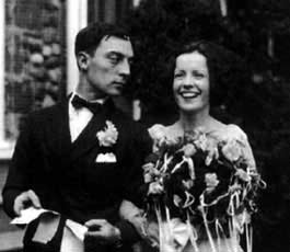 Wedding picture of Natalie Talmadge and Buster Keaton.